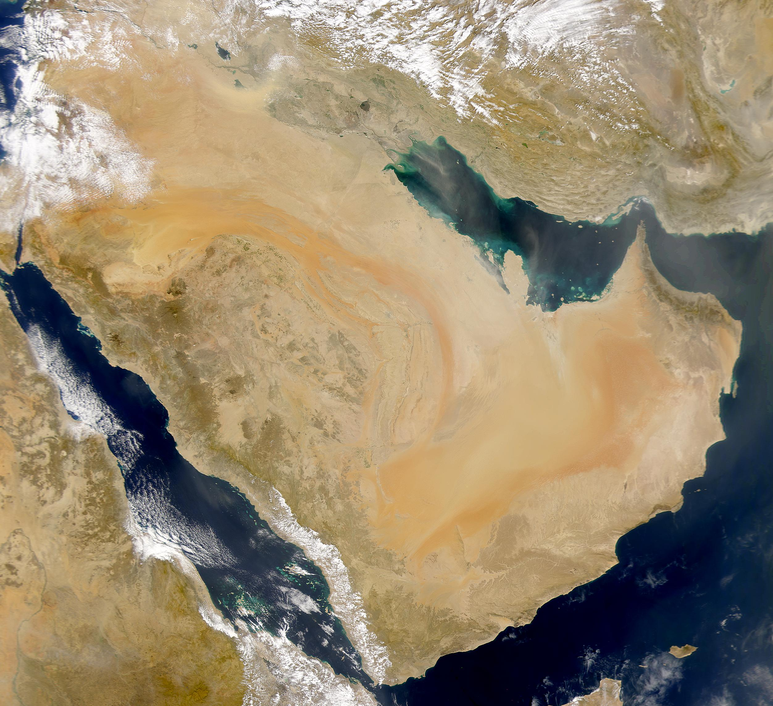 SeaWiFS collected this view of Arabia and of dust blowing across the Persian Gulf.